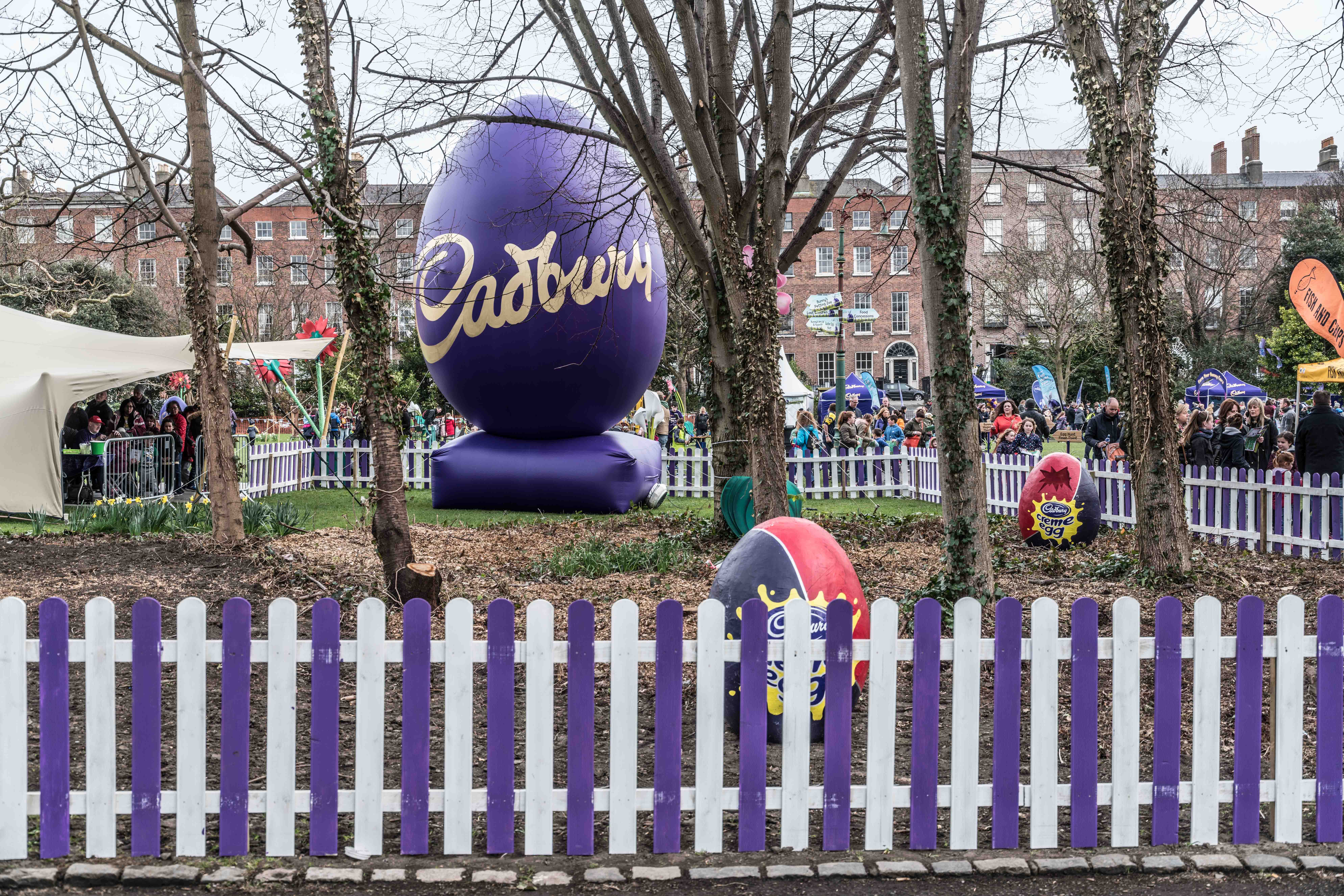 Today I thought that it might be a good idea to photograph scenes and events relating to Easter so I visited Merrion Square and I discovered that Cadbury had organised a family friendly Easter Egg hunt in aid of a charity but something caught my attention by its absence. There were all sorts of posters, notices, balloons and signs but nowhere did I see the word ‘Easter’. I checked online and Barnados described the event as “Cadbury Easter Egg Hunt in Support of Barnardos!” while Cadbury described the event as “Join The Egg Hunt Fun This Easter”. Not a huge difference but then I came across the following: Cadbury's, a leading chocolate manufacturer, is denying that the word “Easter” has been dropped from the packaging of their famous chocolate eggs this year in an attempt to market their products in a more secular way. A spokesperson from Cadbury’s has explained to the media that “Easter” was not prominently displayed on the chocolate egg packaging because they felt that “Easter” was implied by the product itself, denying that it was down to political or religious correctness. “Most of our Easter eggs don’t say Easter or egg on the front as we don’t feel the need to tell people this – it is very obvious through the packaging that it is an Easter egg,” said the spokesperson. 2016 Dublin Easter Rising centenary parade